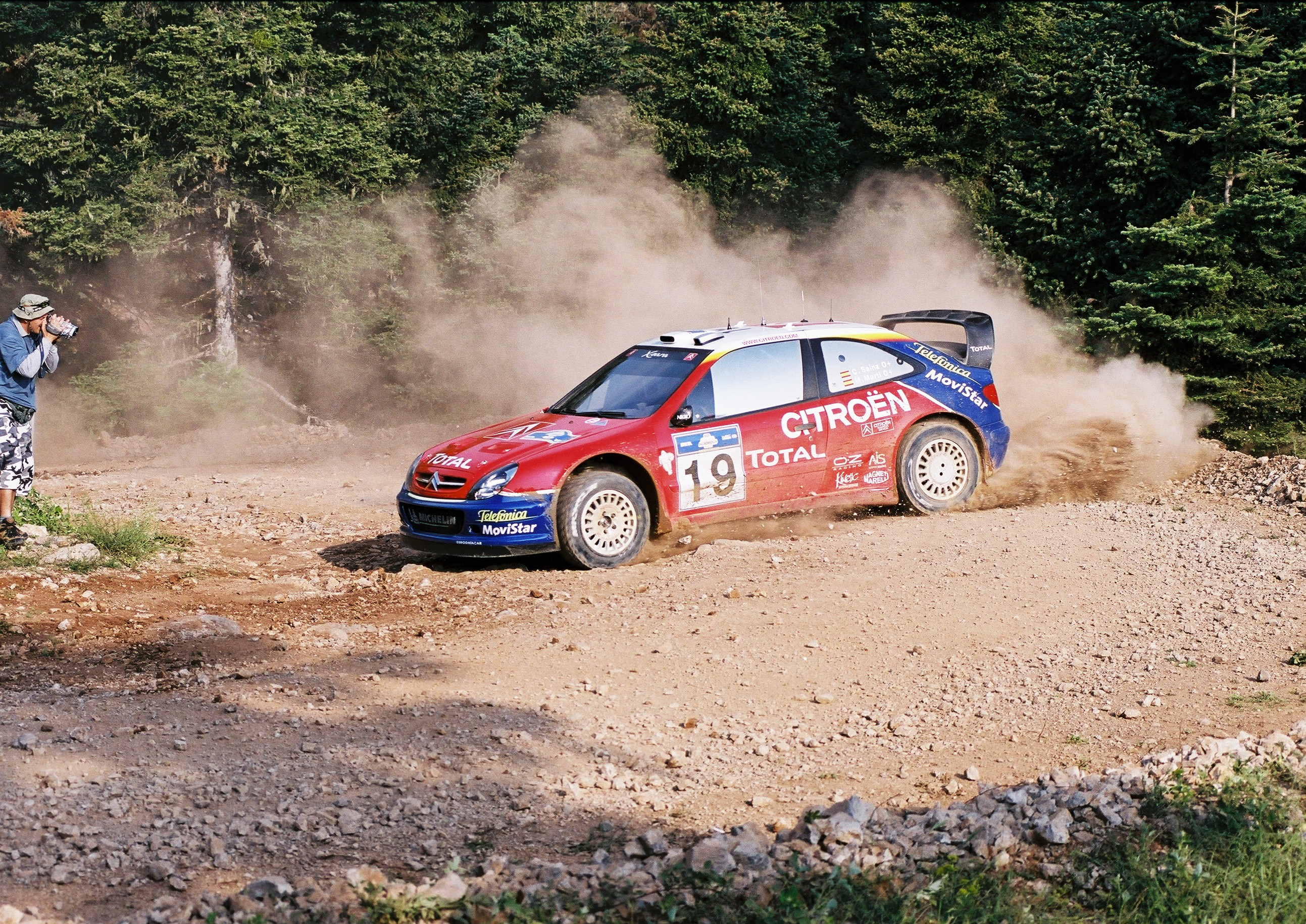 19 C. Sainz and M. Marti in 2003 Rally Acropolis (S.S. ?)